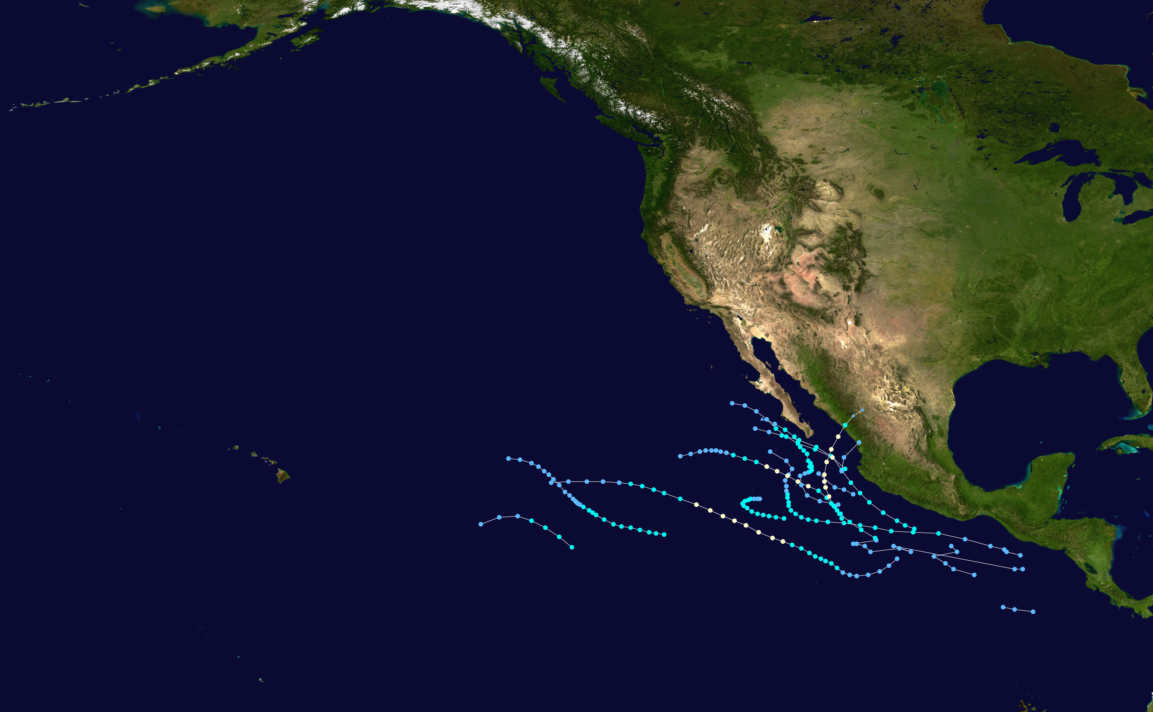 This map shows the tracks of all tropical cyclones in the 1969 Pacific hurricane season. The points show the location of each storm at 6-hour intervals. The colour represents the storm's maximum sustained wind speeds as classified in the Saffir-Simpson Hurricane Scale (see below), and the shape of the data points represent the type of the storm. Saffir–Simpson hurricane wind scale Tropical depression≤38 mph≤62 km/h Category 3111–129 mph178–208 km/h Tropical storm39–73 mph63–118 km/h Category 4130–156 mph209–251 km/h Category 174–95 mph119–153 km/h Category 5≥157 mph≥252 km/h Category 296–110 mph154–177 km/h Unknown Storm typeTropical cycloneSubtropical cycloneExtratropical cyclone / Remnant low / Tropical disturbance